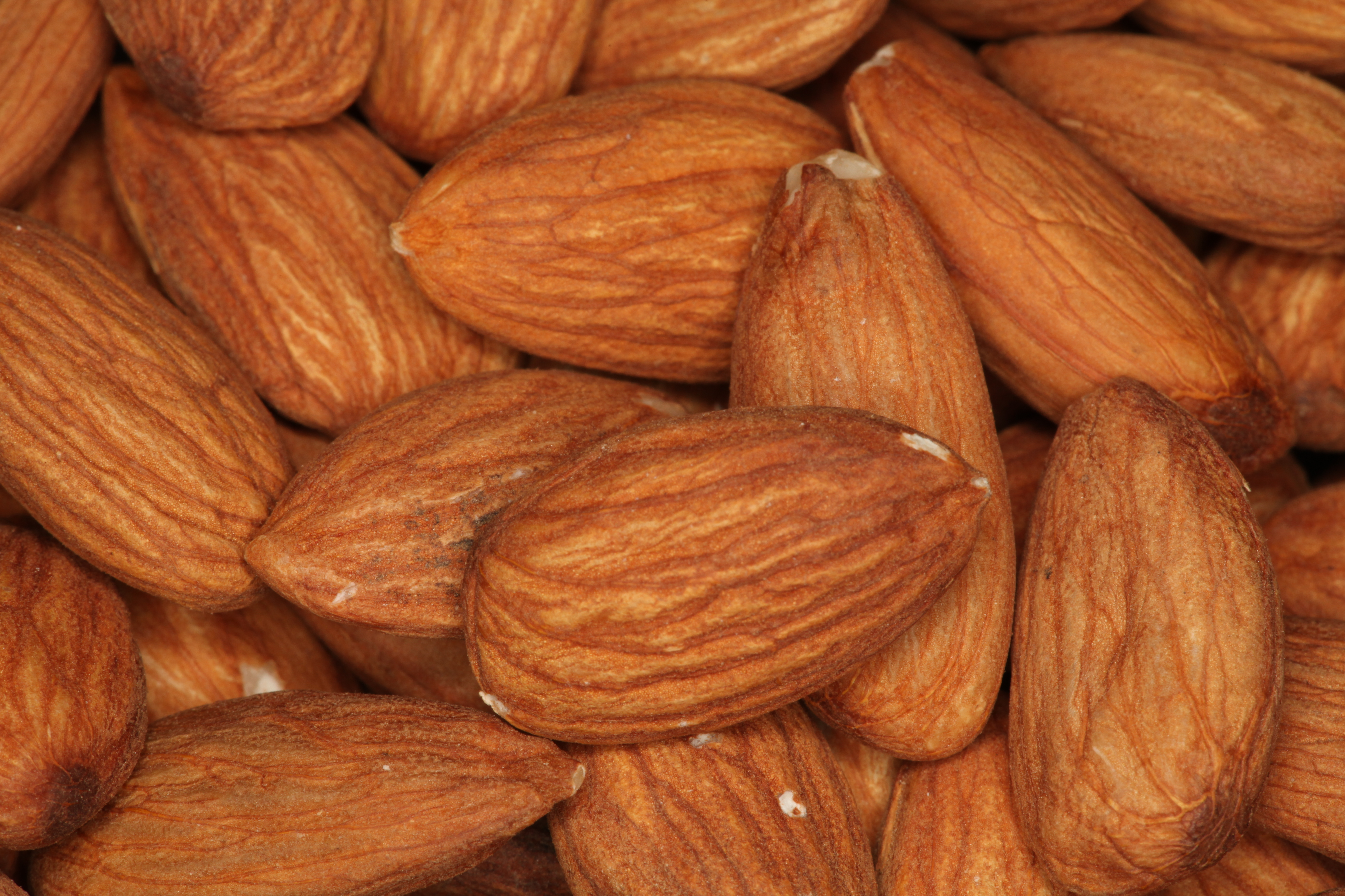 Macro photo of californian almonds